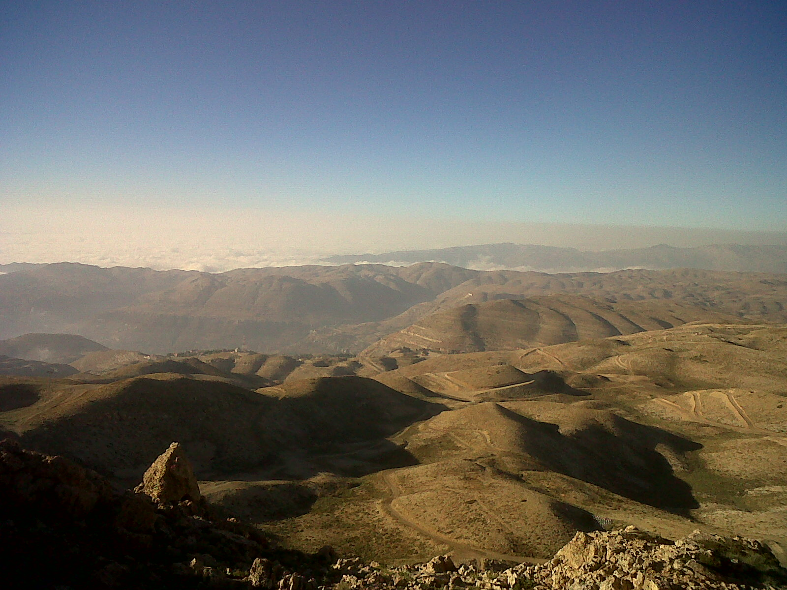 this is a picture of Oyoun el Siman in Faraya